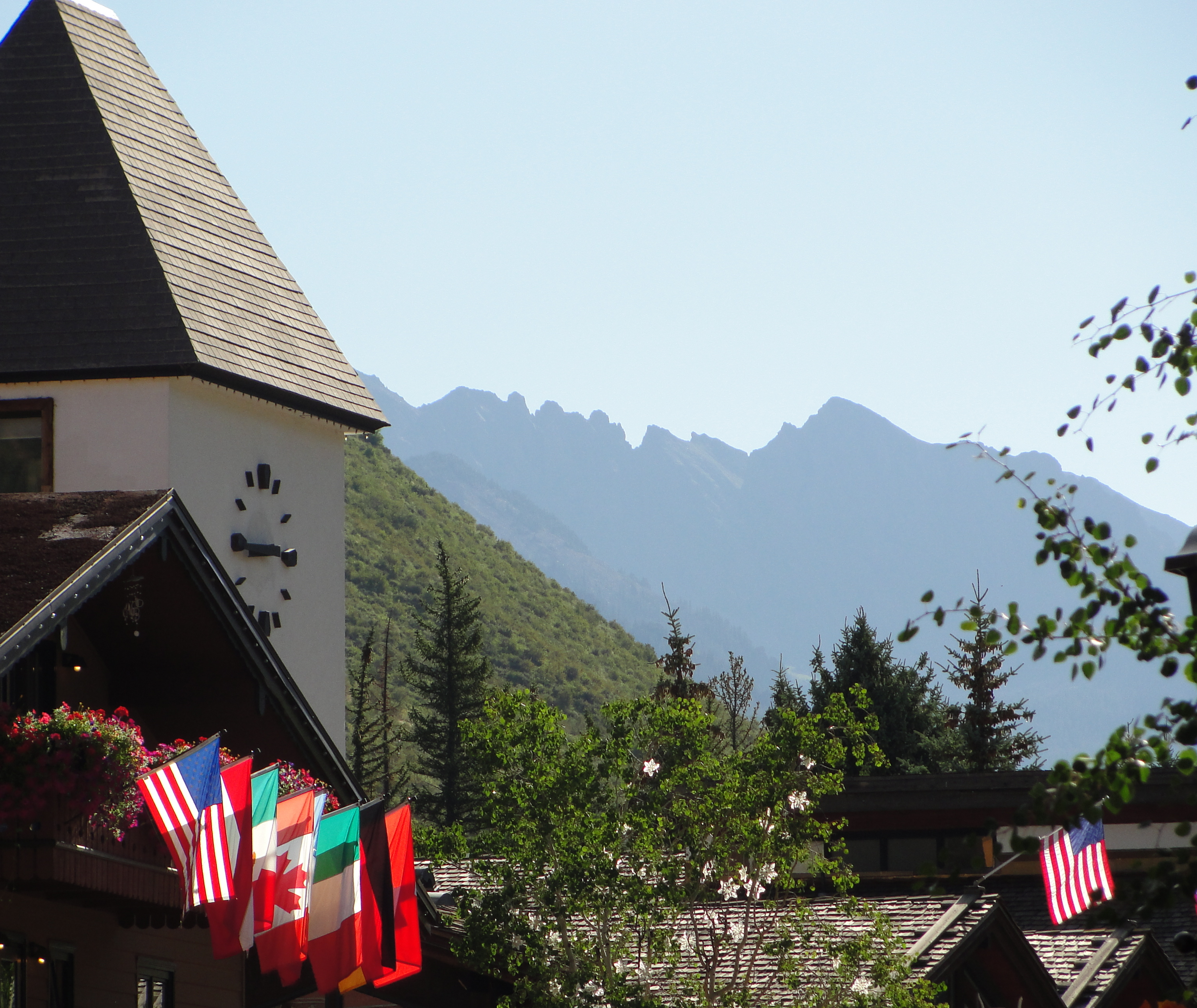 Clock Tower. Vail, Colorado's Clock Tower with the Gore Range in the background, Vail.